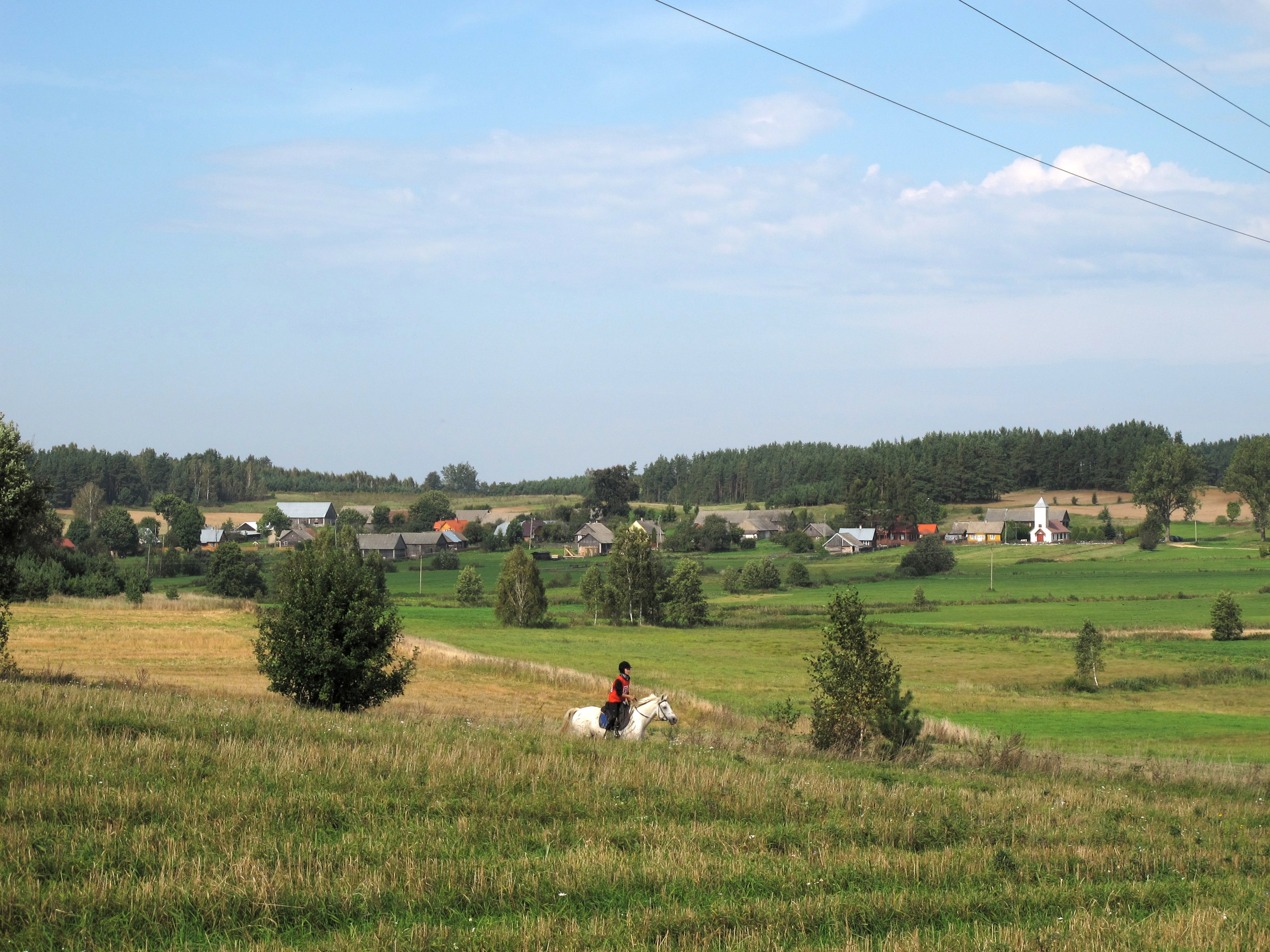 Panorama on Janowszczyzna village, gmina Sokółka, podlaskie, Poland